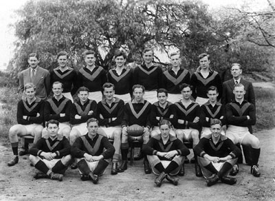 Melbourne University FC., A Grade premiers 1946.